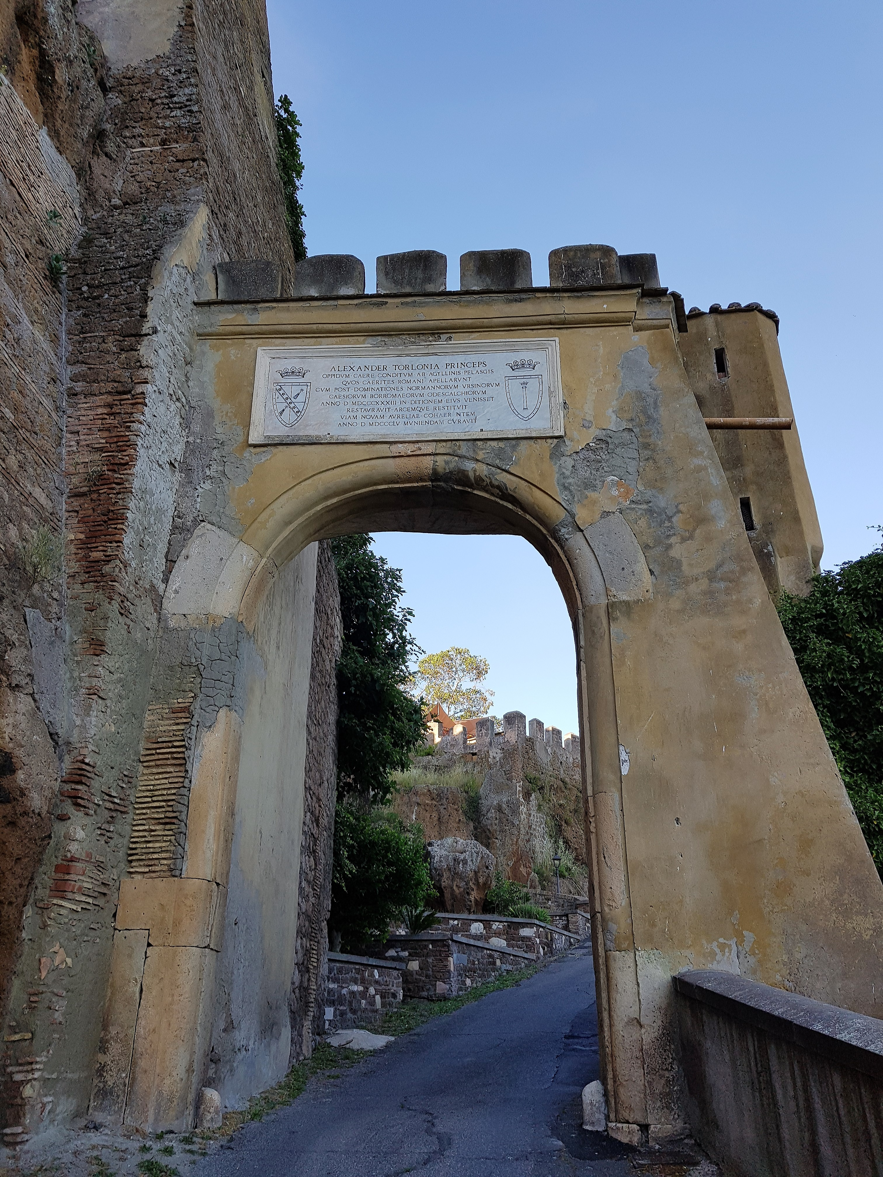 Arco all'entrata di Ceri.